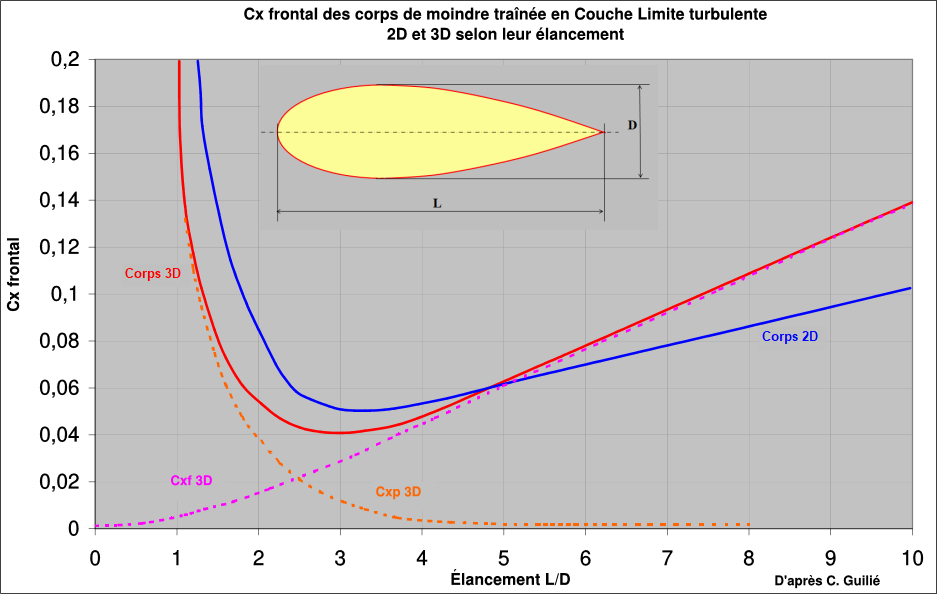 Curves of the frontal Cx of the 2D and 3D bodies of least drag of revolution (in reference to their frontal surface) according to their slenderness L / D, D being their maximum diameter (in 3D) or their maximum thickness (in 2D); after C. Guilié